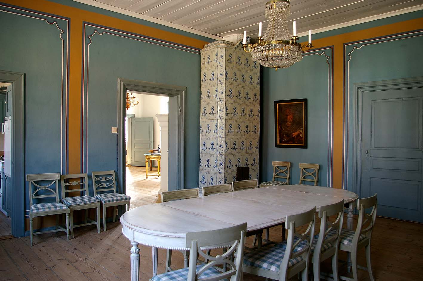 The town hall of Skanör Sweden from 1777.